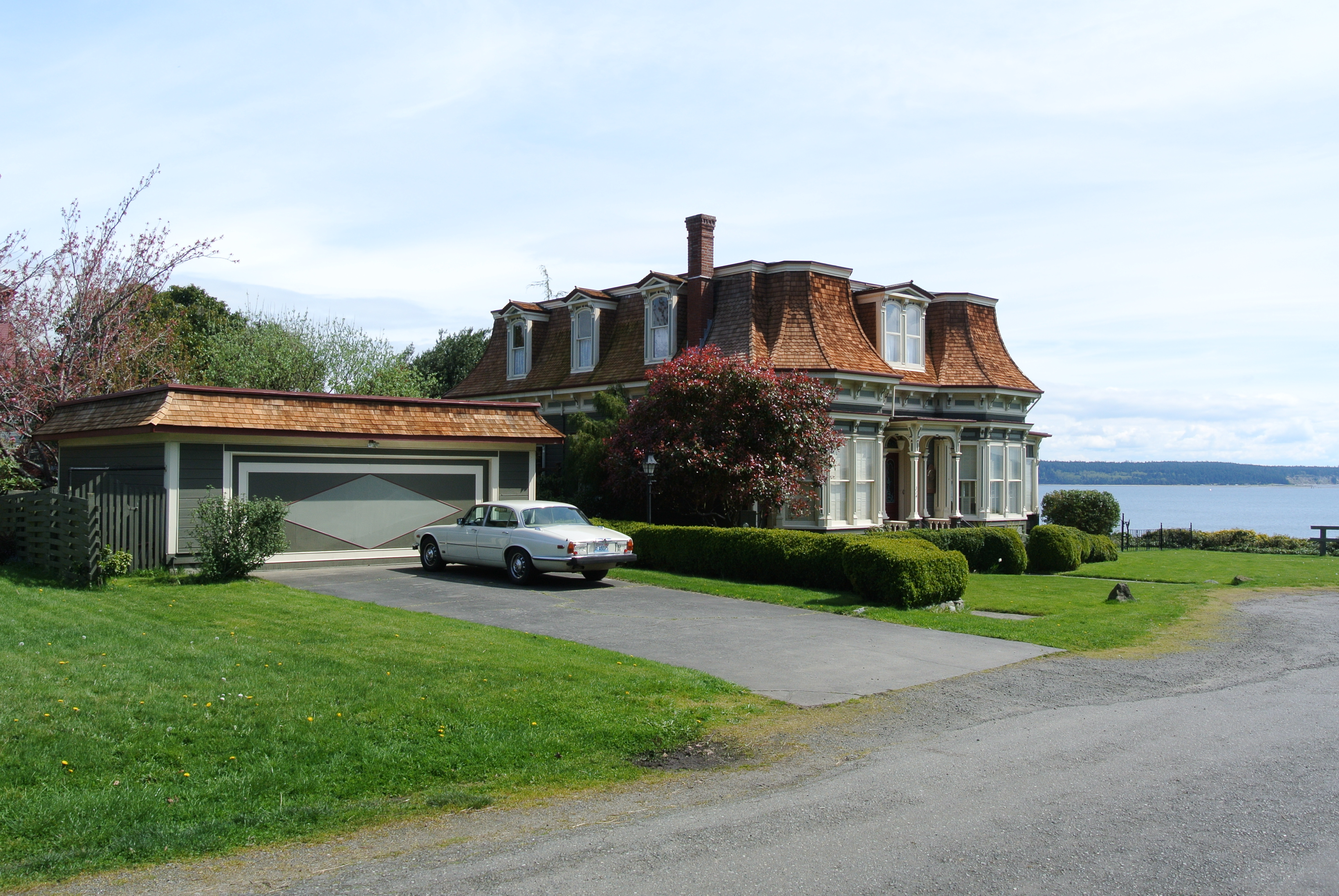 Frank Bartlett House in Port Townsend. Nikon 1 V1 + 1 Nikkor VR 10-30mm f/3.5-5.6